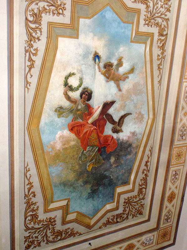 Fresco at Josef Haltrich High School, Sighisoara